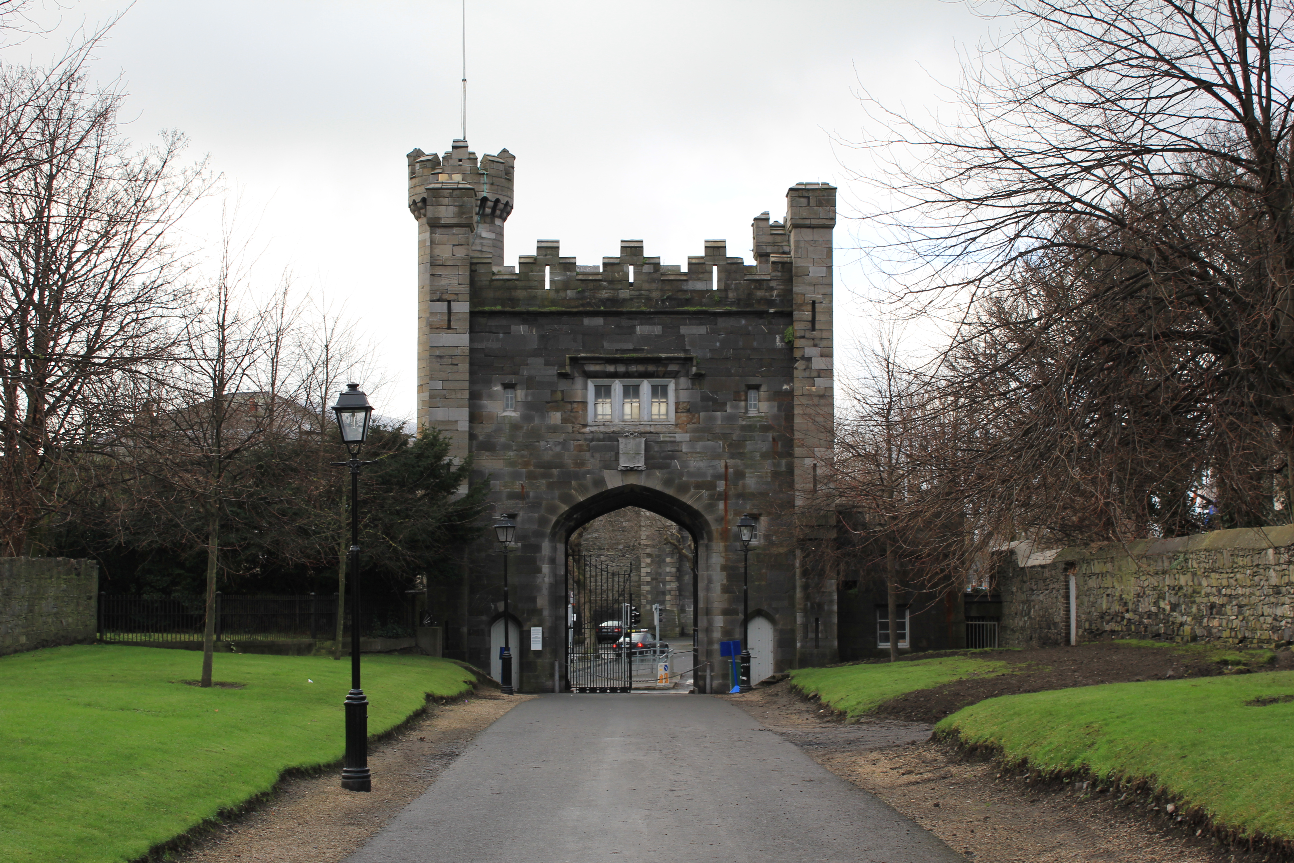 Rear of Richmond Tower looking west.